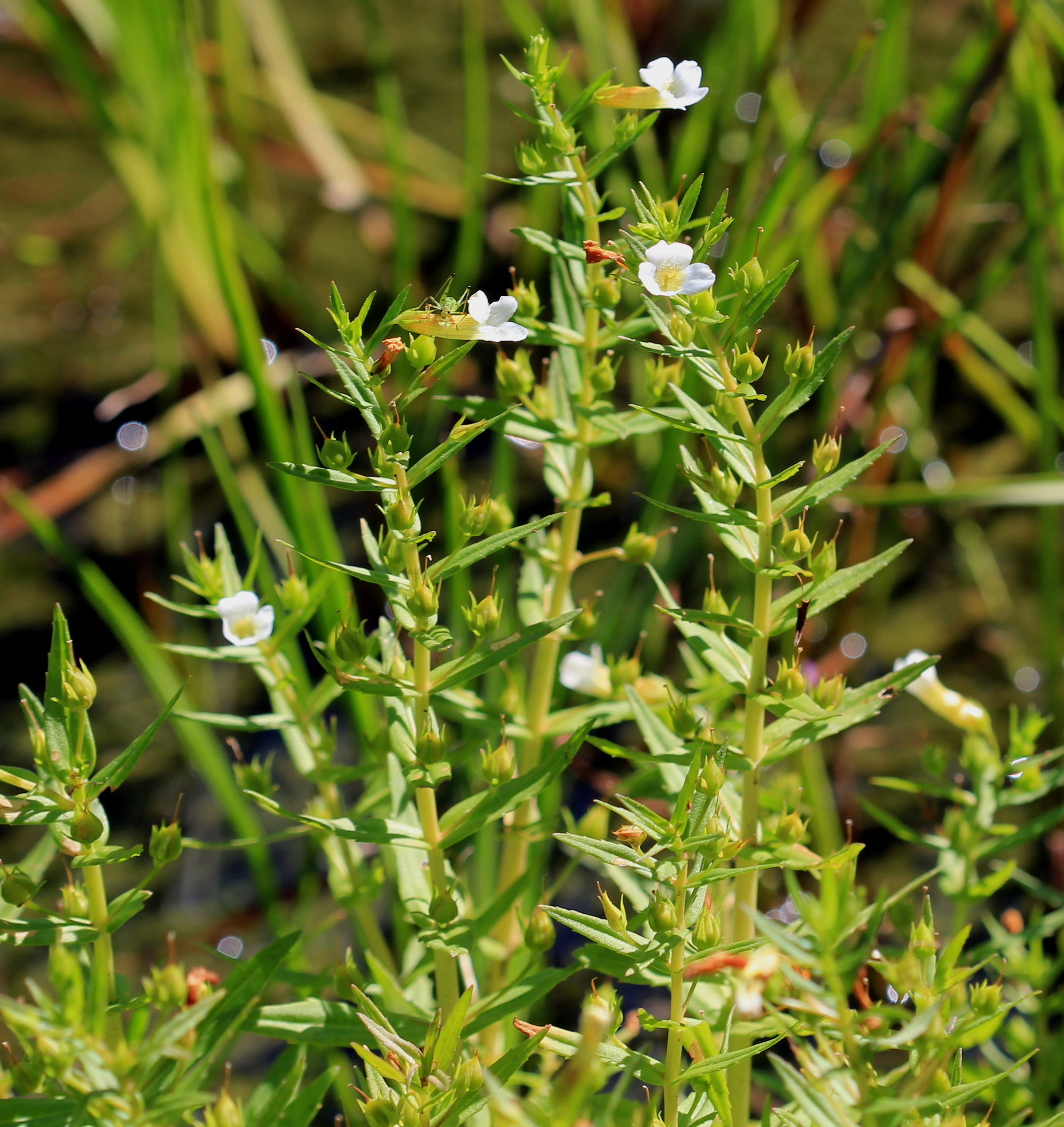 Deatail of plant Gratiola officinalis from the Botanical Gardens of Charles University, Prague, Czech Republic